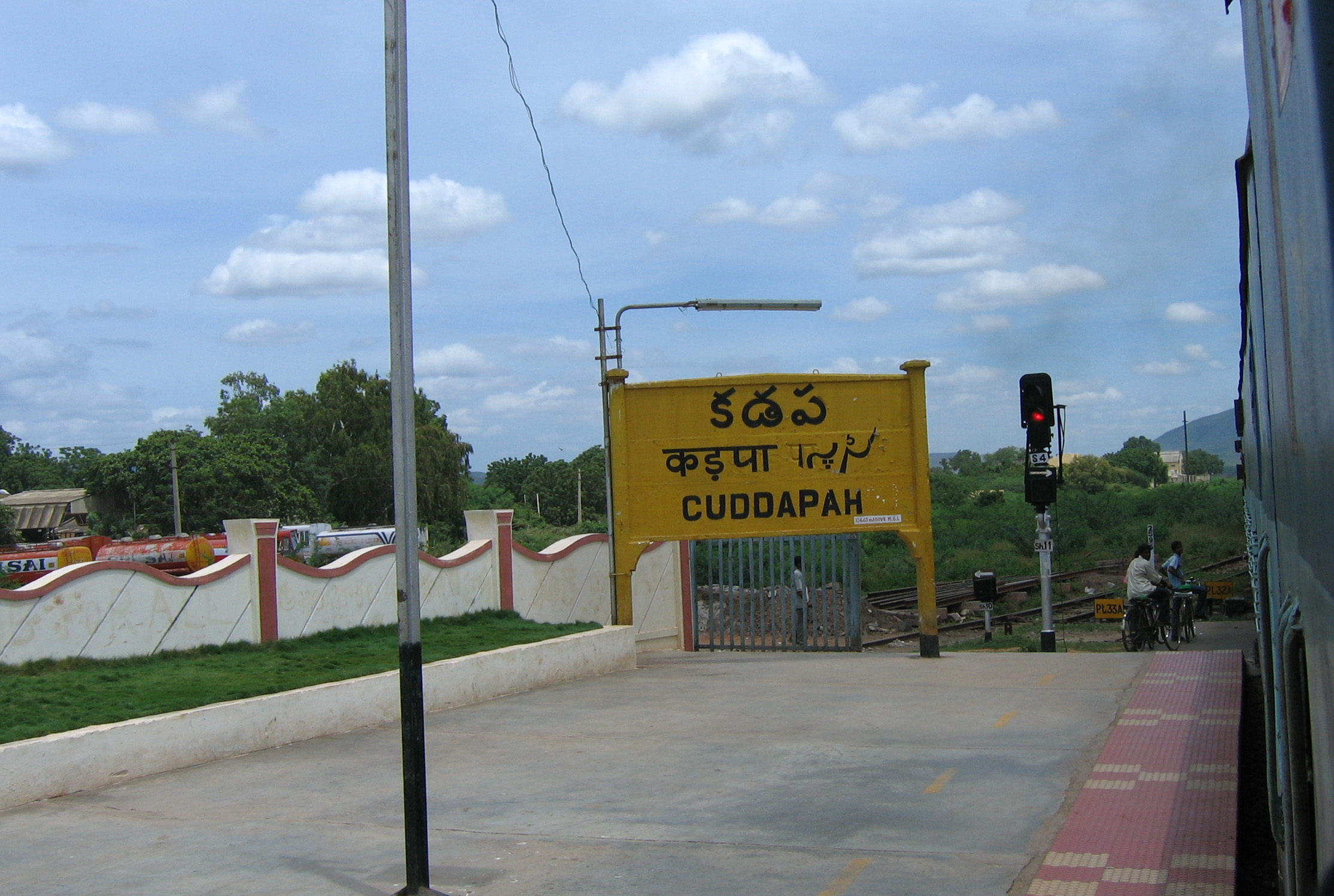 Andhra Pradesh - Landscapes from Andhra Pradesh, views from Indias South Central Railway